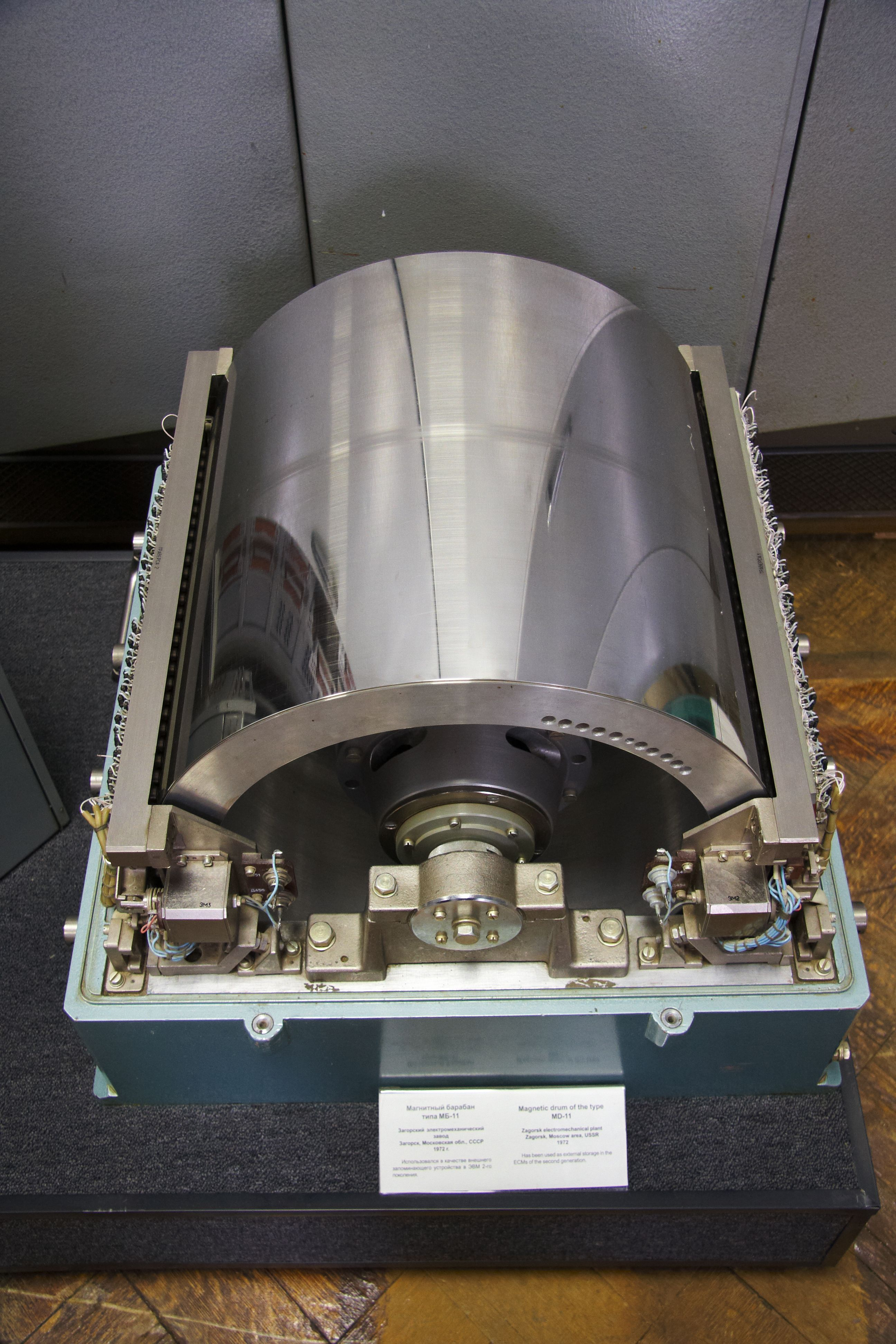 Drum Memory in Moscow Politechnical Museum. Label: "Magnetic drum, type MB-11. Zagorsky electromechanical fabric. Zagorsk, Moscow Oblast, USSR. 1972"